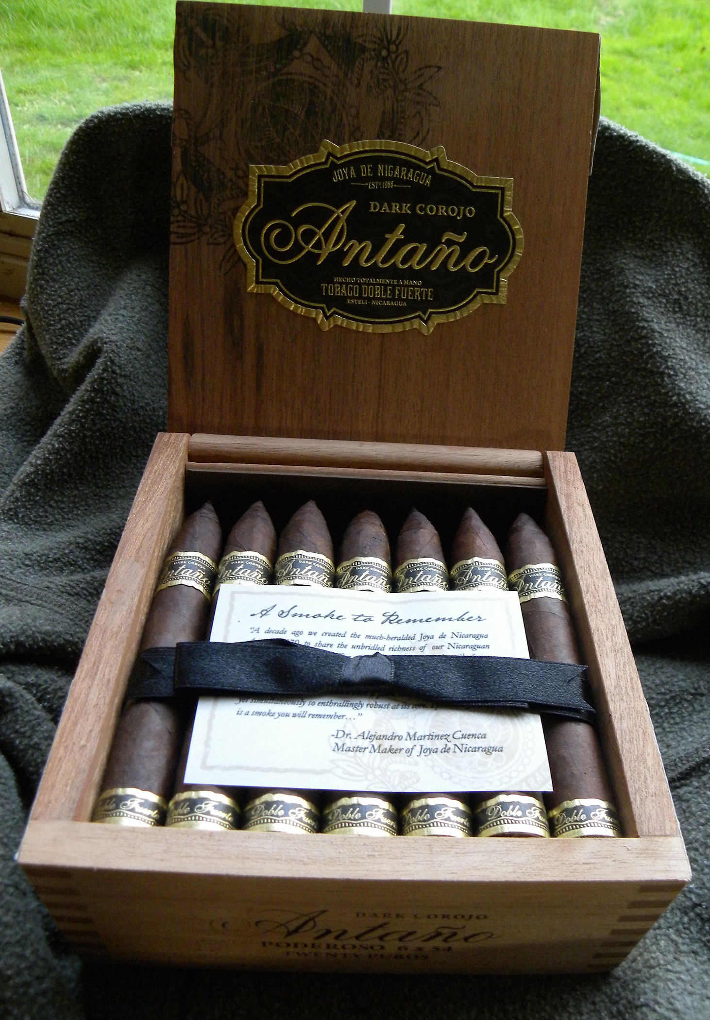 Box of Joya de Nicaragua dark corojo doble fuerte cigars. Made in Nicaragua, 2011. Photograph by Tim Davenport ("Carrite") for Wikipedia. Released to the public domain under terms of Creative Commons Attribution-Share Alike 3.0 license.